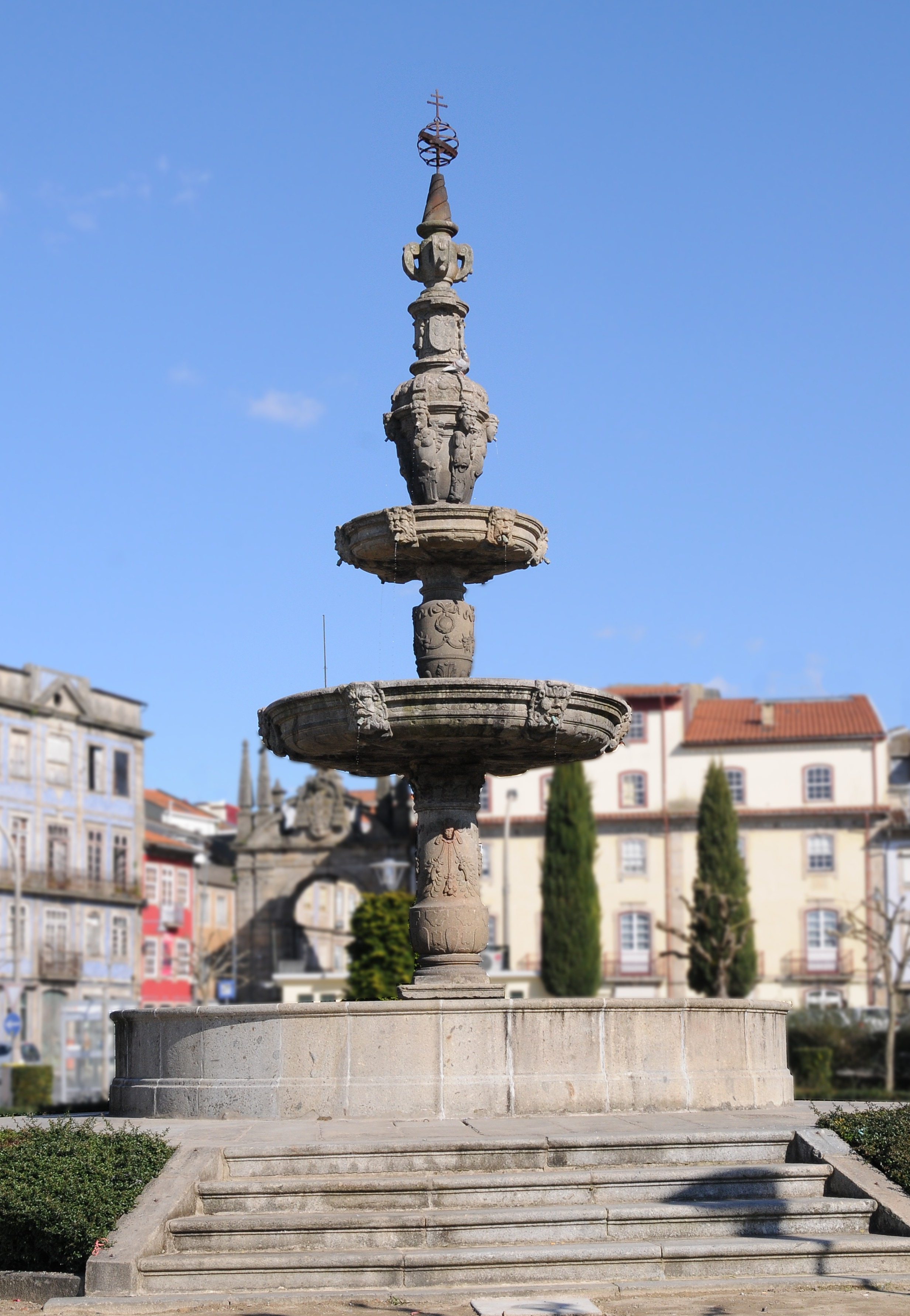 Fountain in Campo da Hortas, Braga, Portugal.